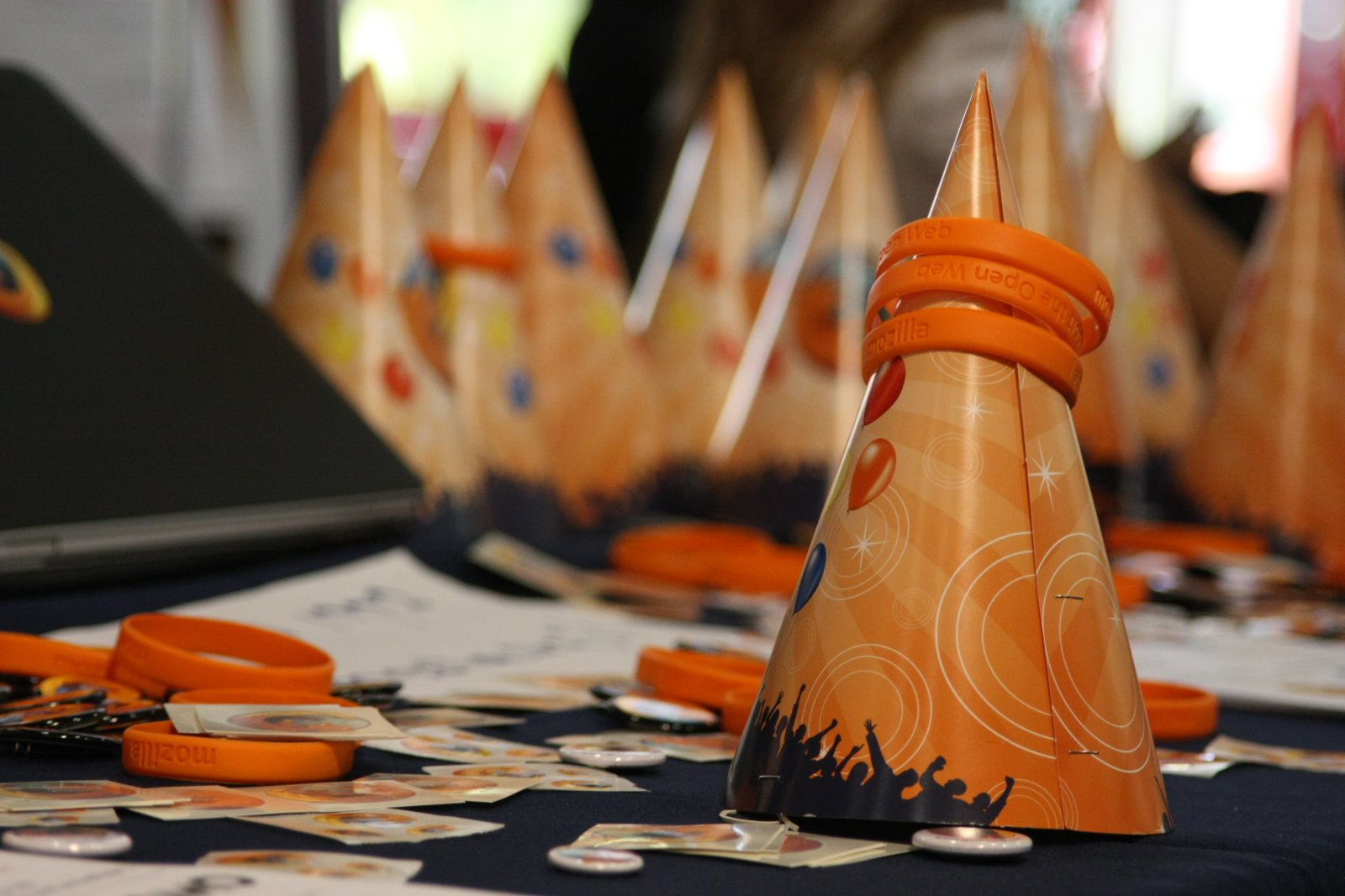 A Mozilla Firefox hat during August Penguin 2009 (israel)